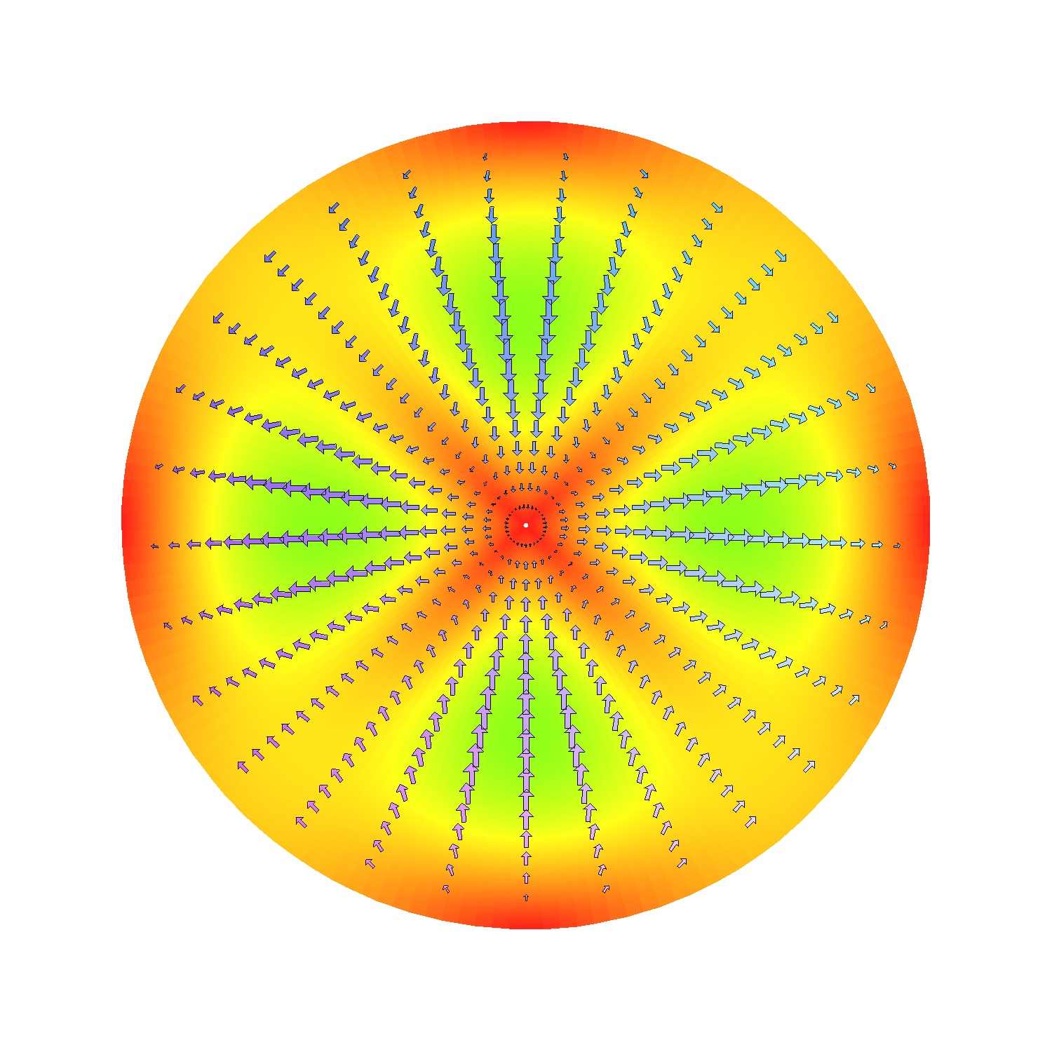 Plot of E and H fields on the TEnl mode defined by n and l.